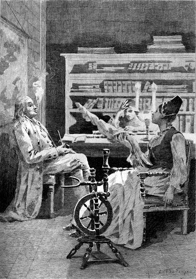 Title page of Honoré de Balzac's Seraphita (1835).